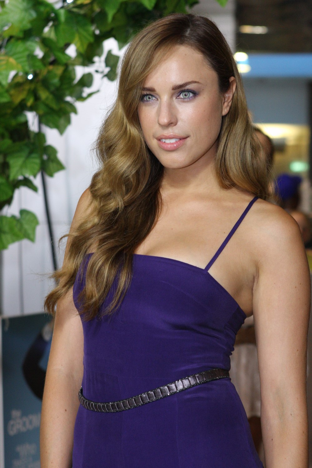 Jessica McNamee at A Few Best Men movie premiere In Sydney, Australia, 2012